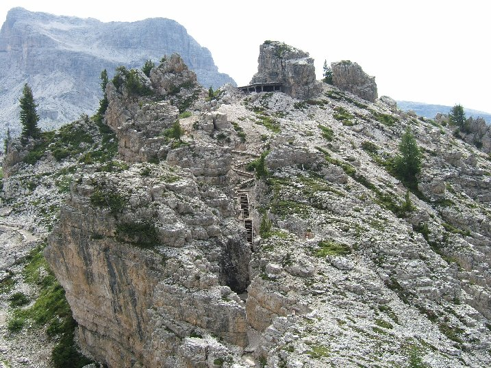 The World War 1 open air museum on 5 Torri. The photograph shows the Italian trenches and bunkers.